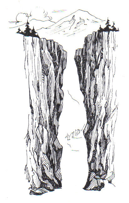 line art drawing of chasm.